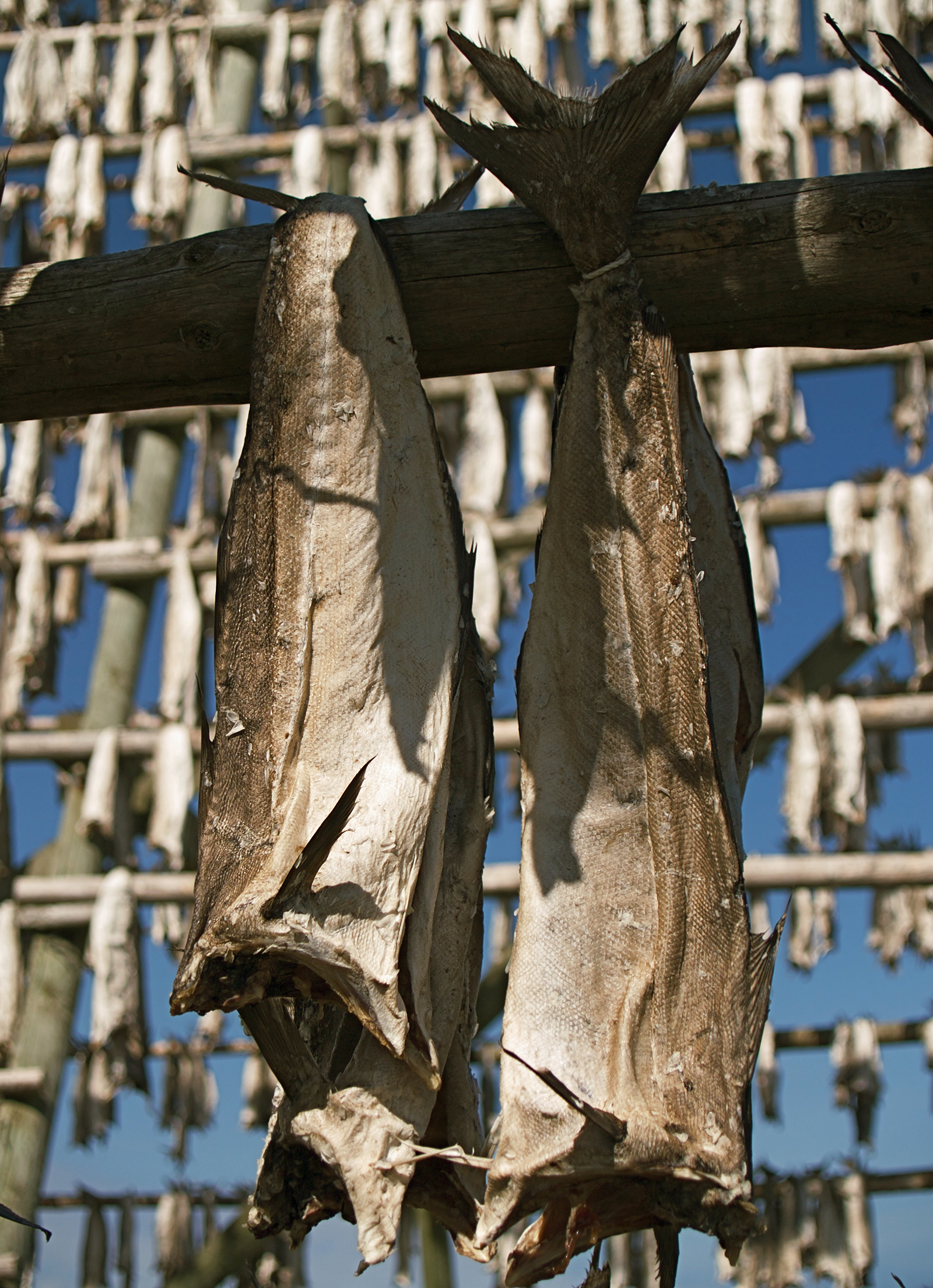 Stockfish up for drying in Norway